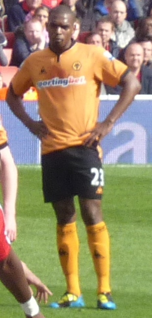 Ronald Zubar, cropped from Arsenal vs Wolves